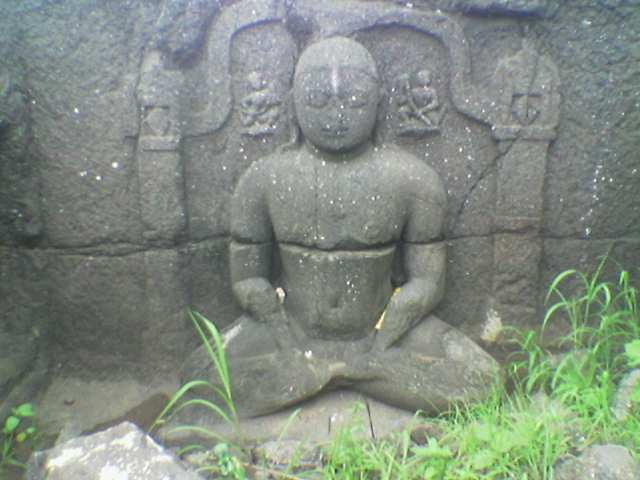 Mahavir sculpture in pandavleni-B in Gomai river Shahada, Maharashtra